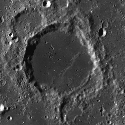 Oken lunar crater - LROC image